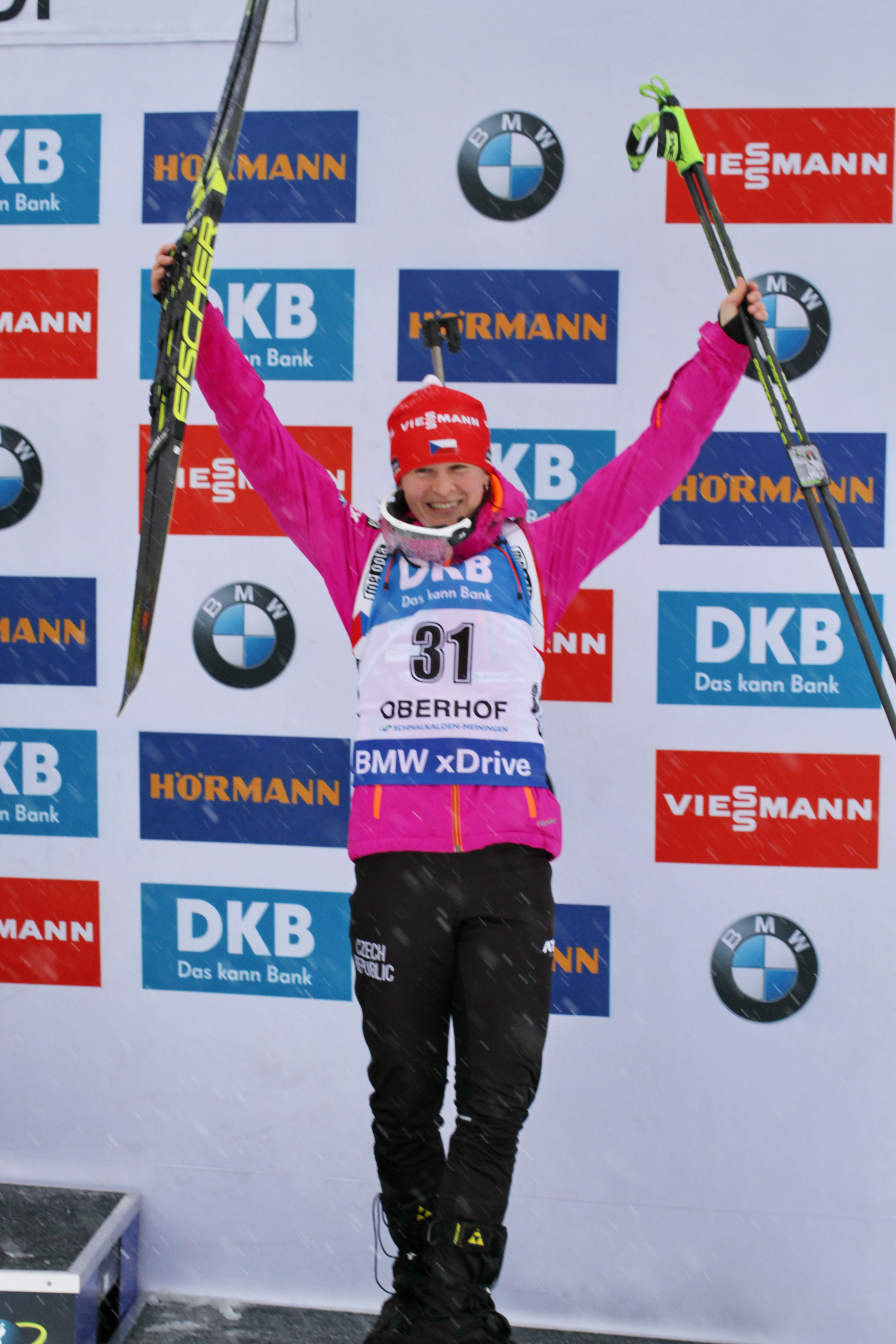 2018 Oberhof Biathlon World Cup - Sprint Women